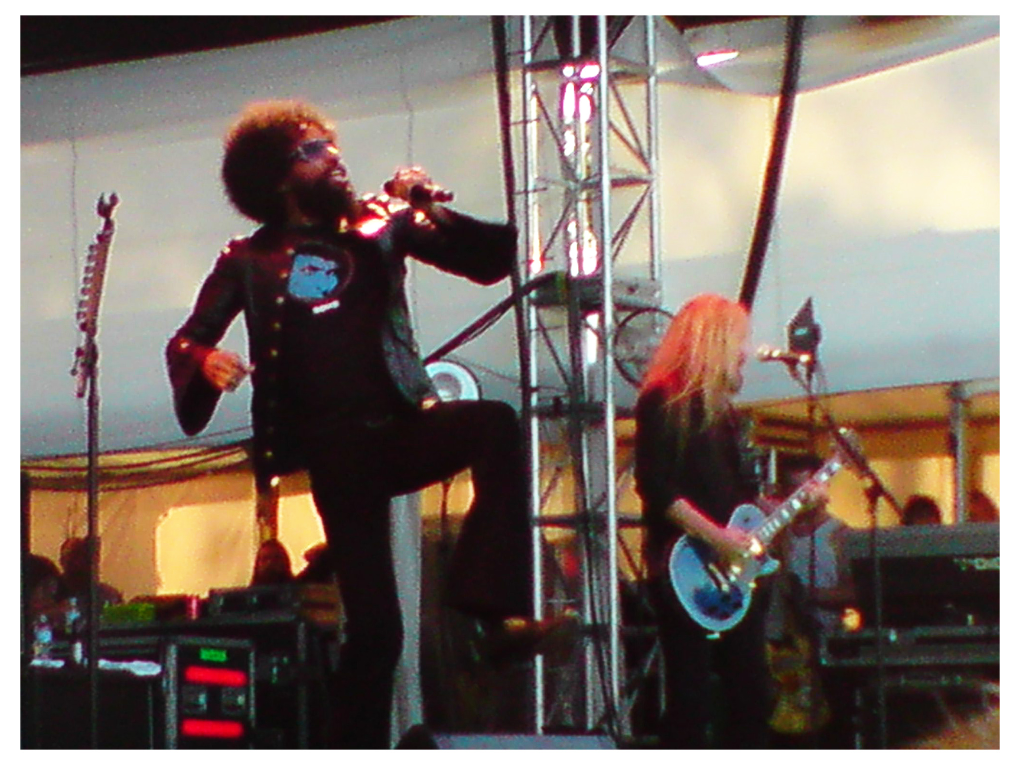 Alice in Chains playing @ Soundwave Festival 2009, in Australia.